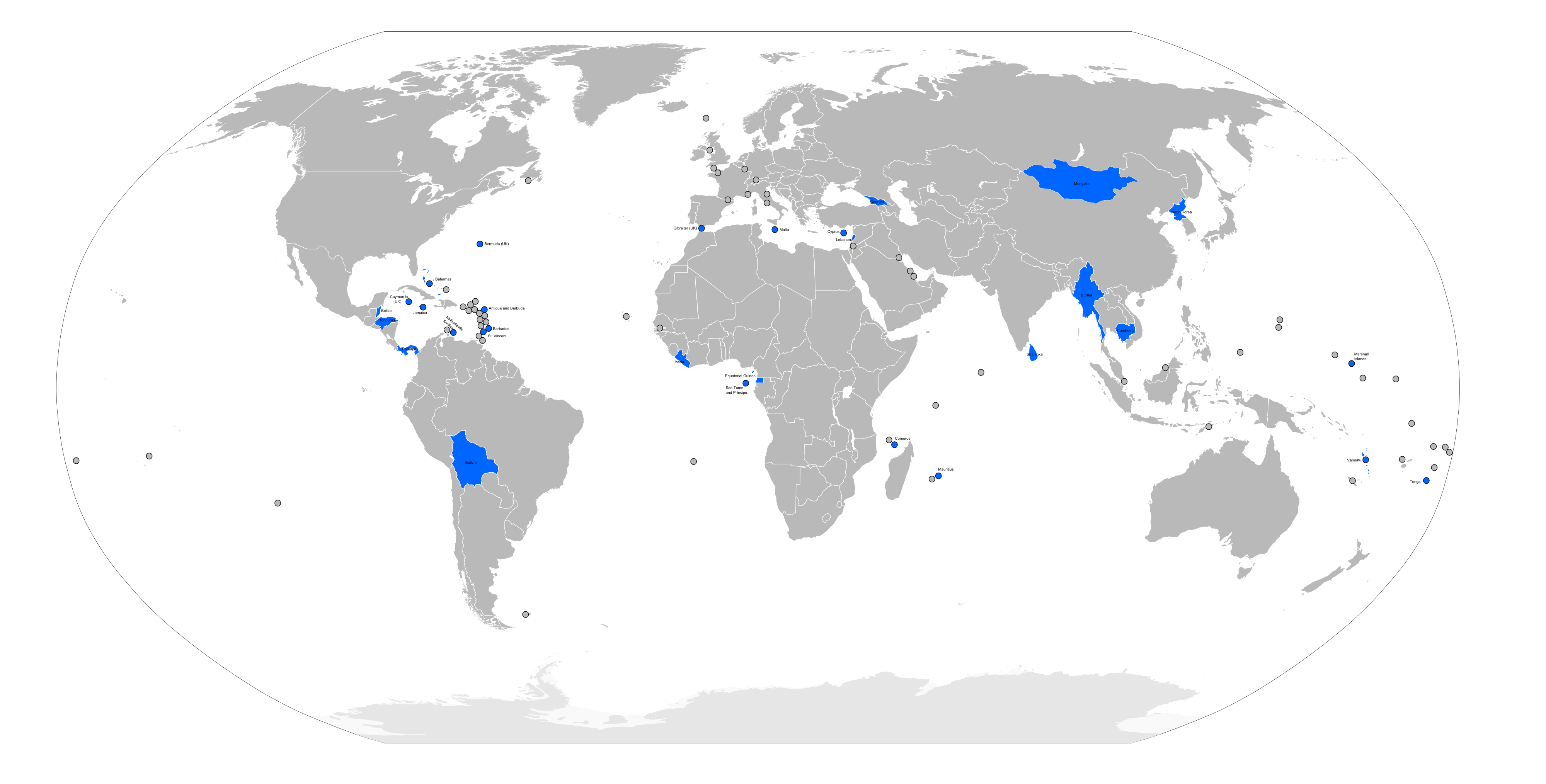 Flags of convenience countries and territories (marked in blue), as listed by the International Transport Workers' Federation on [1]